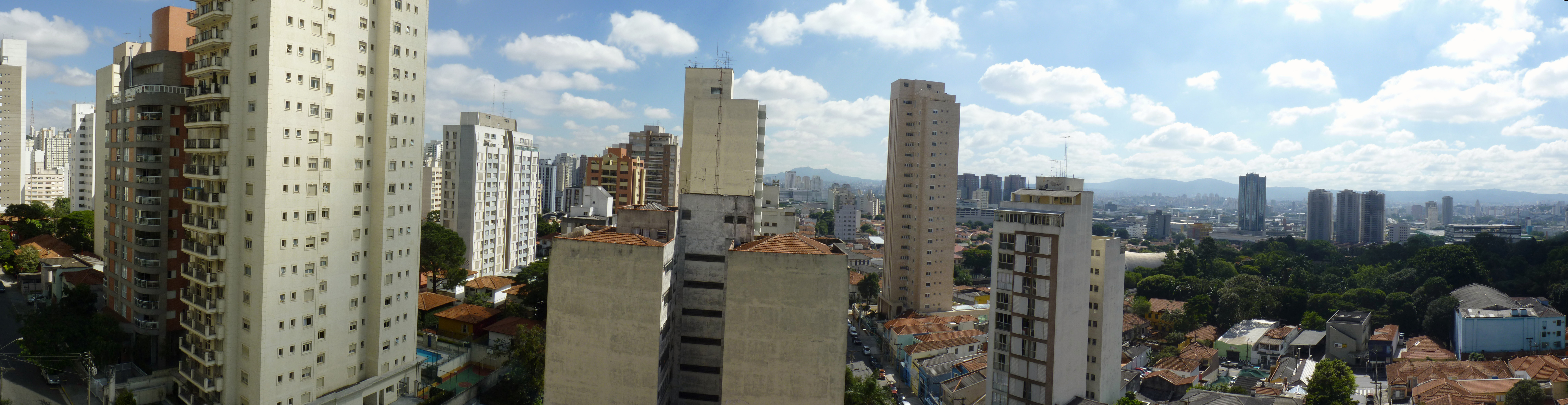 Panoramic set of the northwest region of São Paulo city, Brazil showing many featured spots.